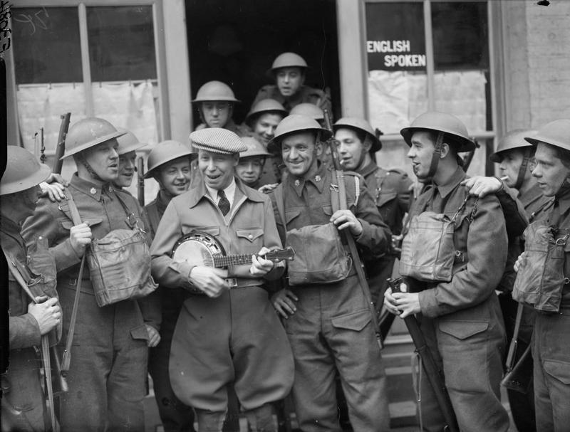 George Formby entertaining British troops in France, 1940